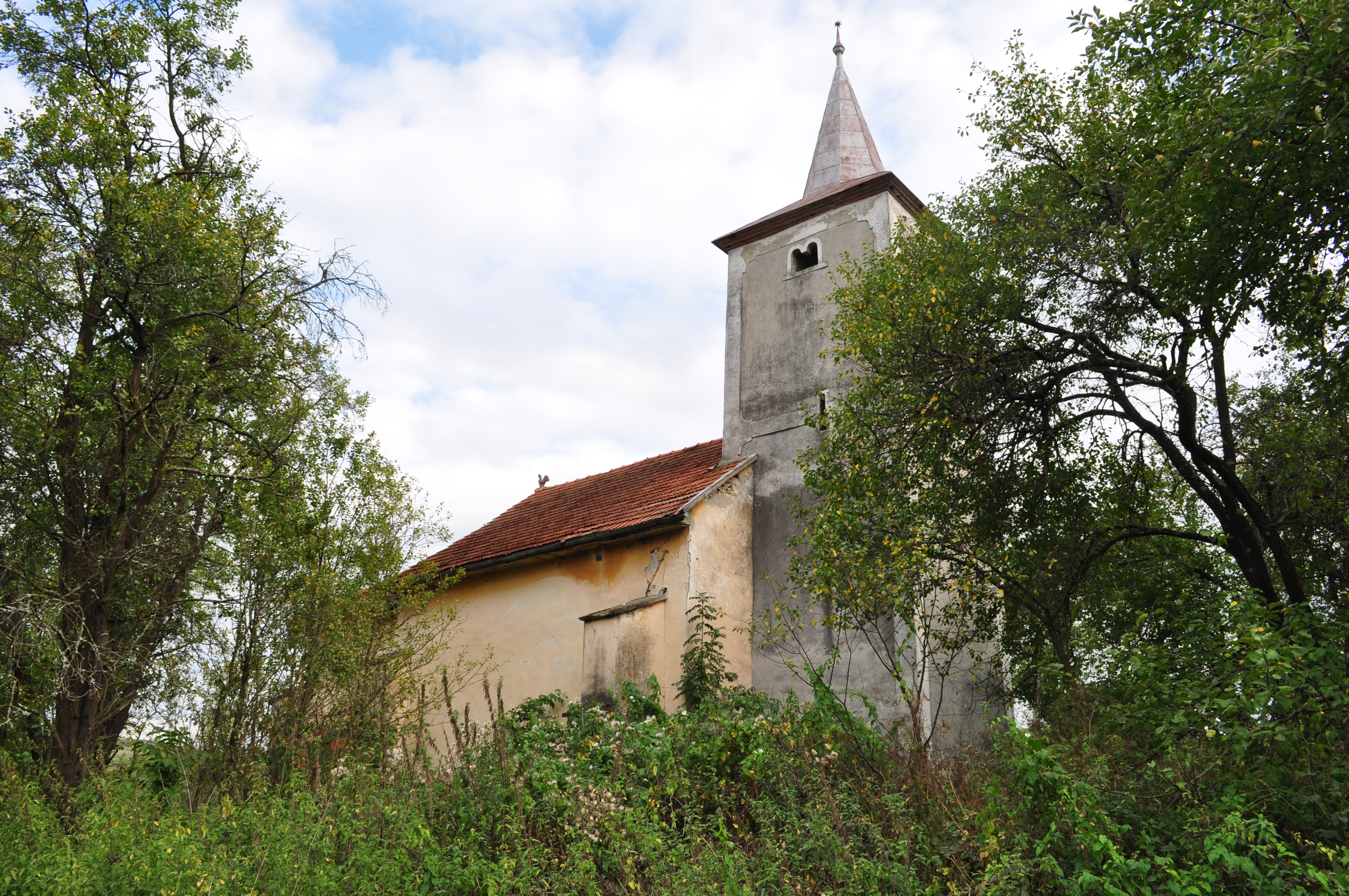 Protestant church in Bădești, Cluj county